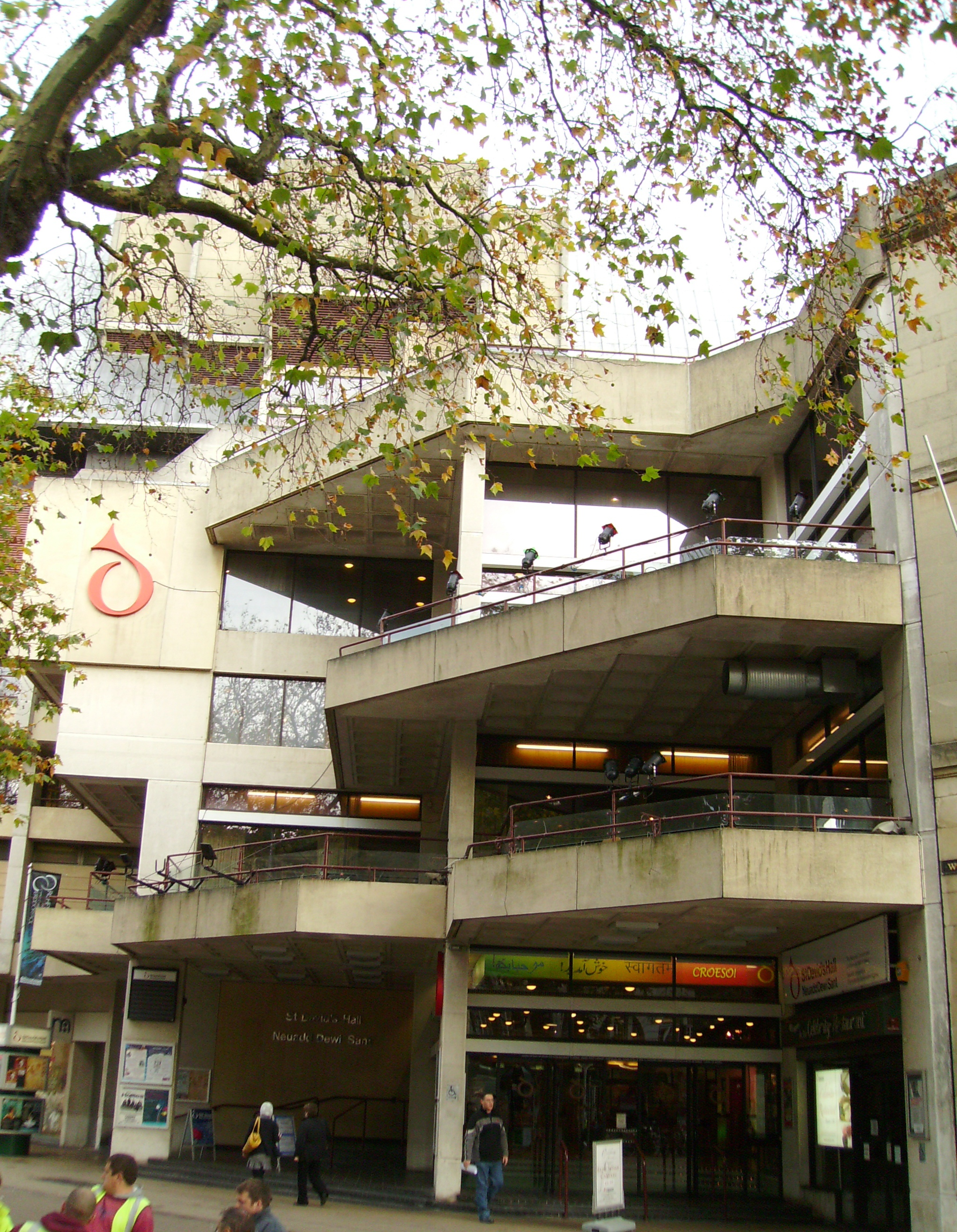 St. Davids Hall, Cardiff, Wales